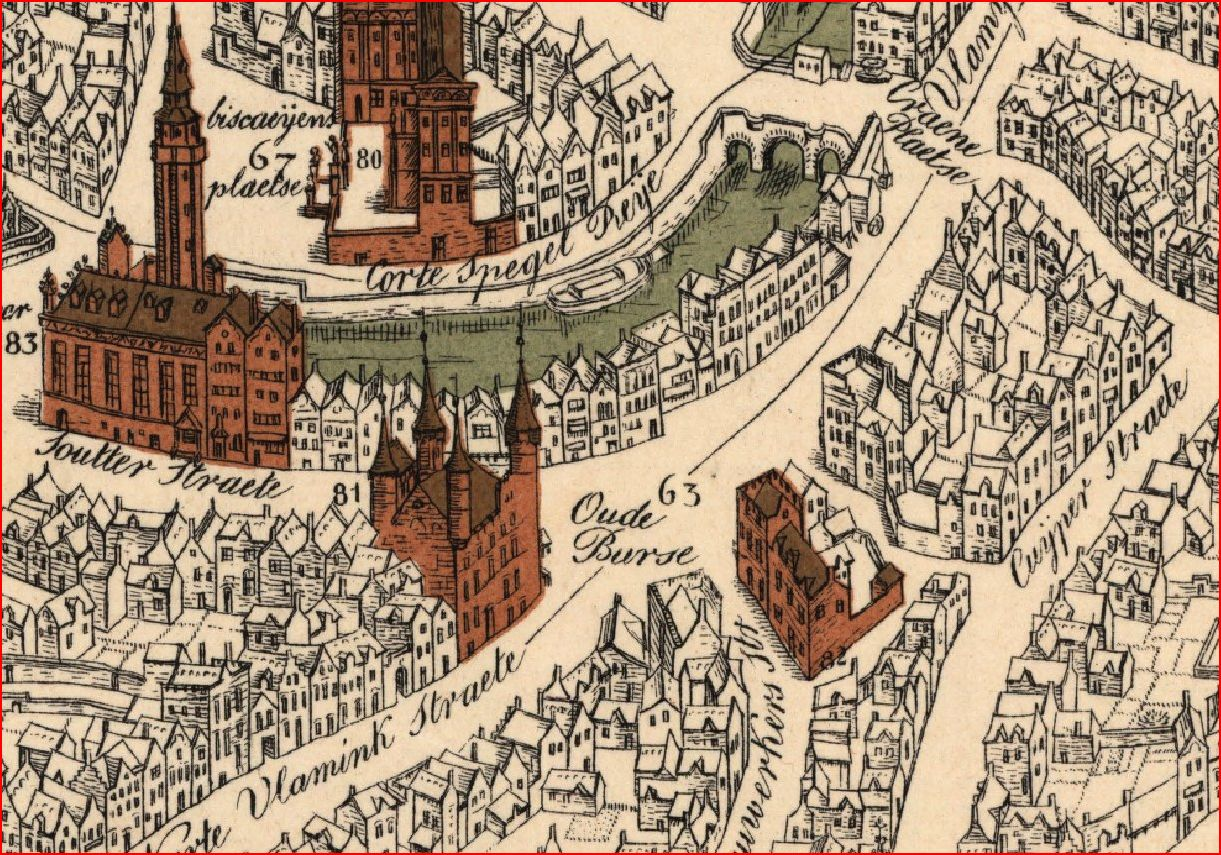 The "Oude Burse" square in Bruges. Detail from the city map engraving by Marcus Gerards (1562). Street Names added to the map in 1751 and 1762. The north is oriented to the lower left corner.